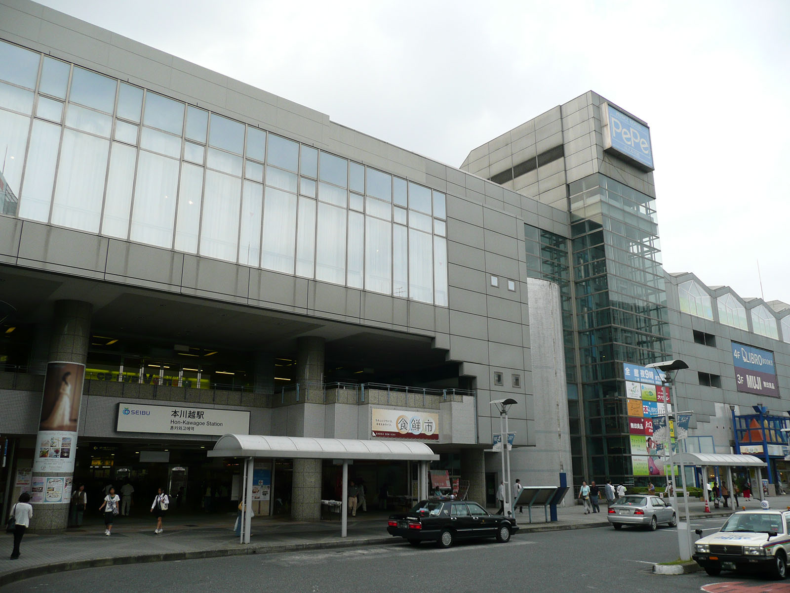 Hon-Kawagoe Station on the Seibu Shinjuku Line